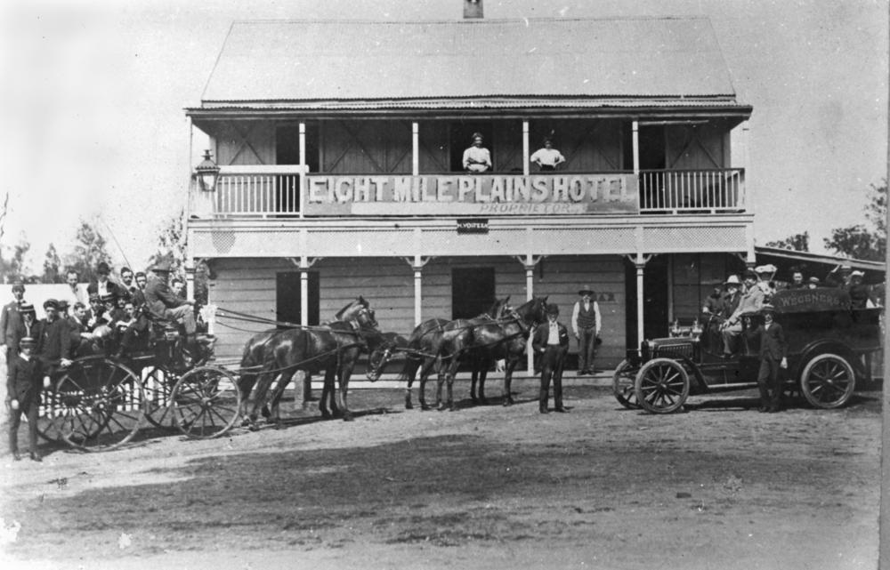 Eight Mile Plains Hotel Brisbane, ca. 1905 First listing in the Queensland Post Office Directory in 1887. A hotel by this name remained in operation until, ca. 1927, after which the local hotel was named the Glen Hotel. (Description supplied with photograph).